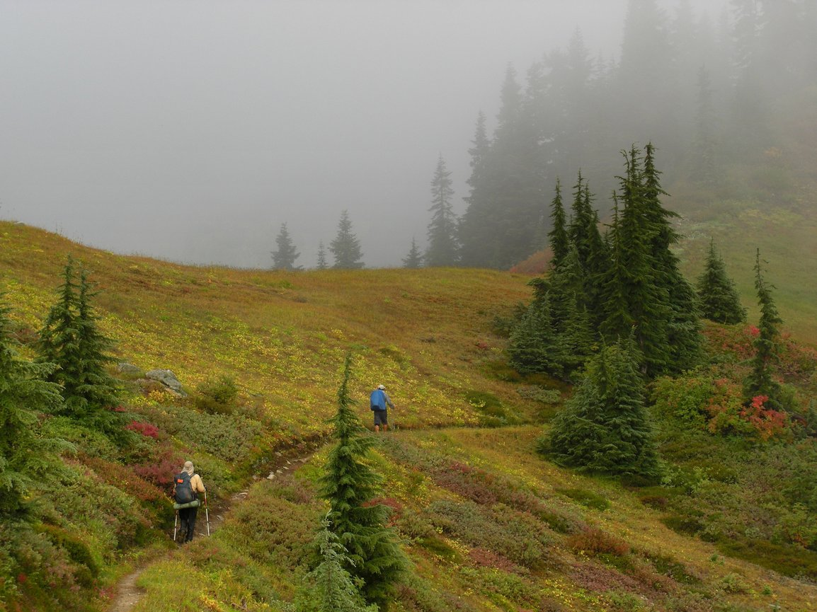 near Cady Pass 20100918.249 Henry Jackson Wilderness, WA